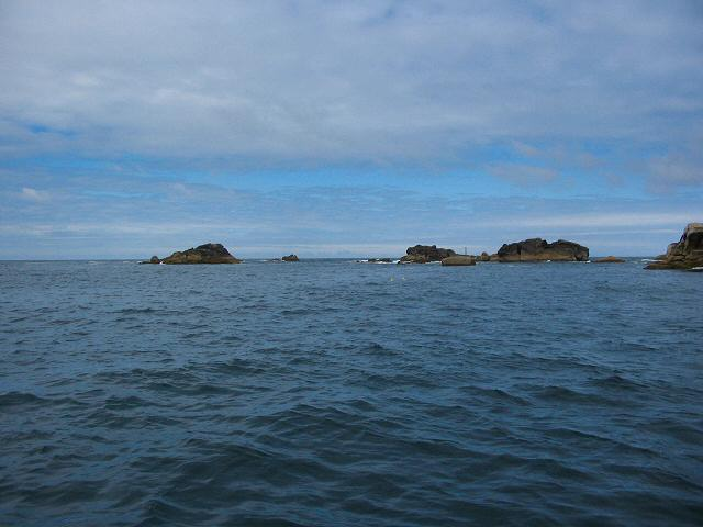 Western Rocks - Scilly. These rocks lie right out on the south western edge of Scilly. The rock in the distance is the infamous Gilstone which has been the cause of many shipwrecks - most notably the Association in the early 1700's.